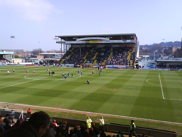 The Big Stand, Lincoln City FC